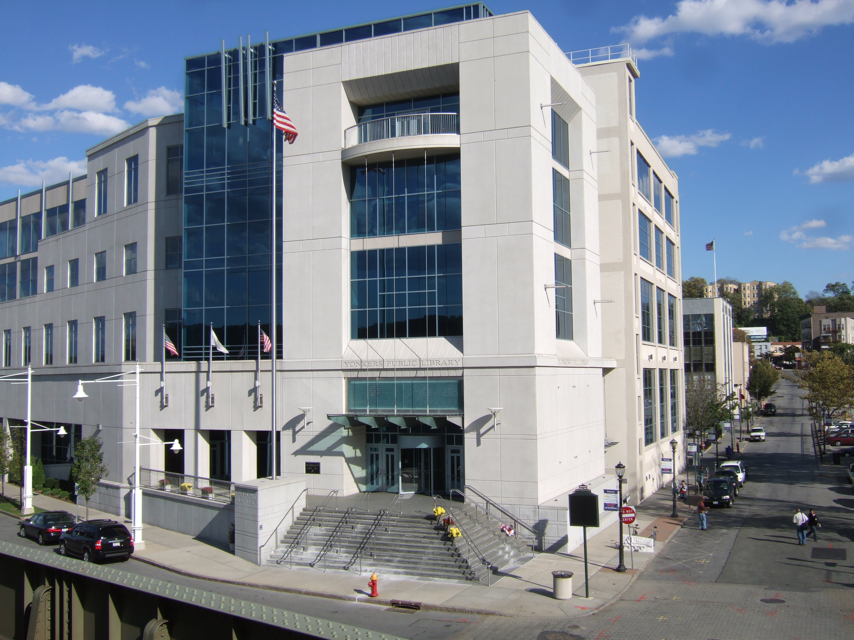 Yonkers Library, Yonkers, NY.